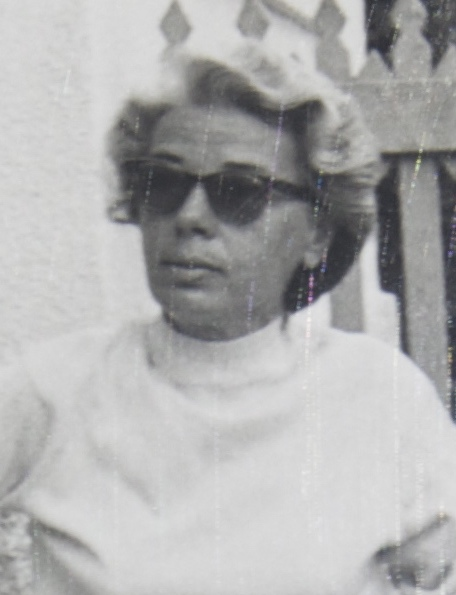 Picture of Ester Carloni (mother of the user who uploaded the picture) at the end of the 1950s in Fregene